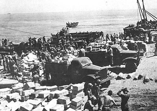 Supplies and equipment on the landing beach on Guadalcanal, 7 August 1942.